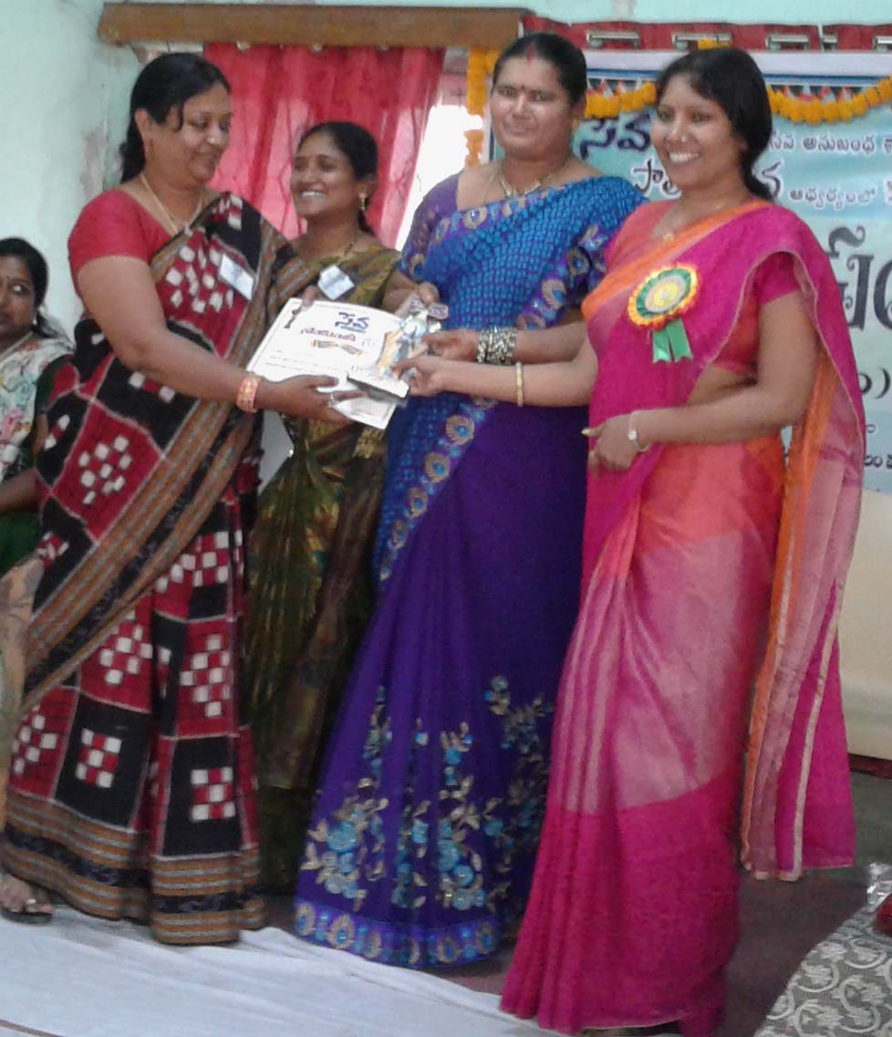 Siri Labala